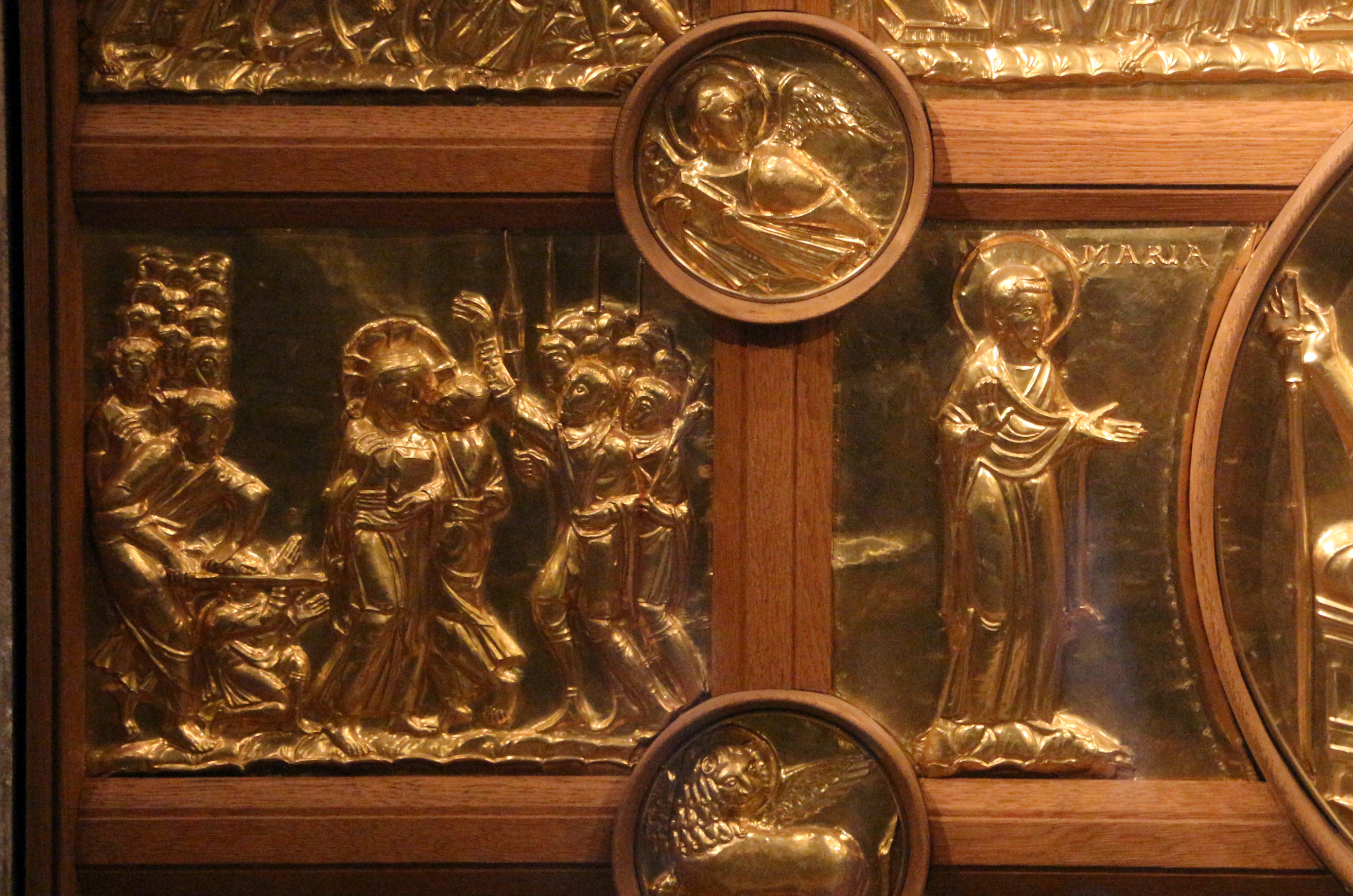 Pala d’oro (Aachen)